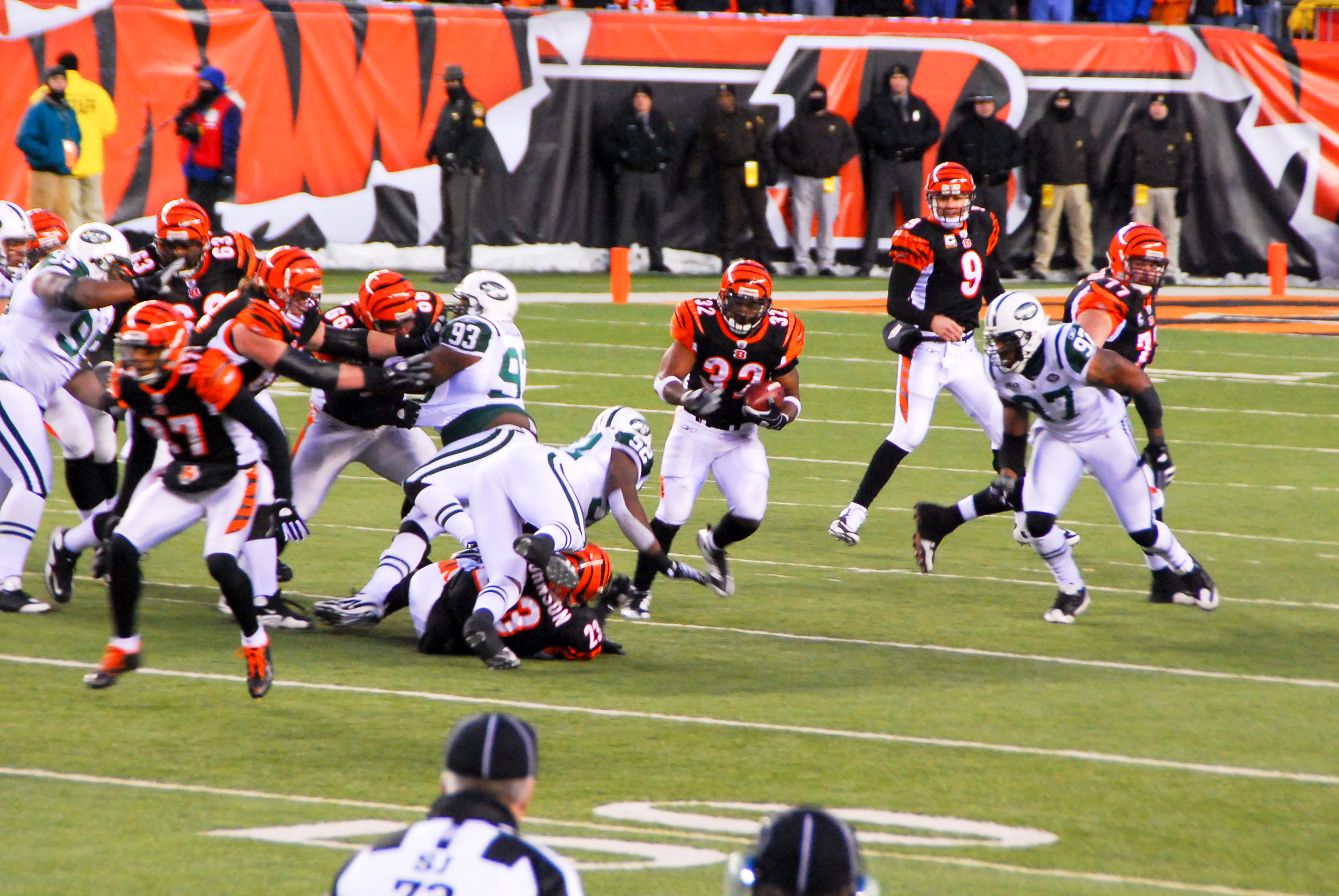 Cedric Benson carries the ball on a rush.